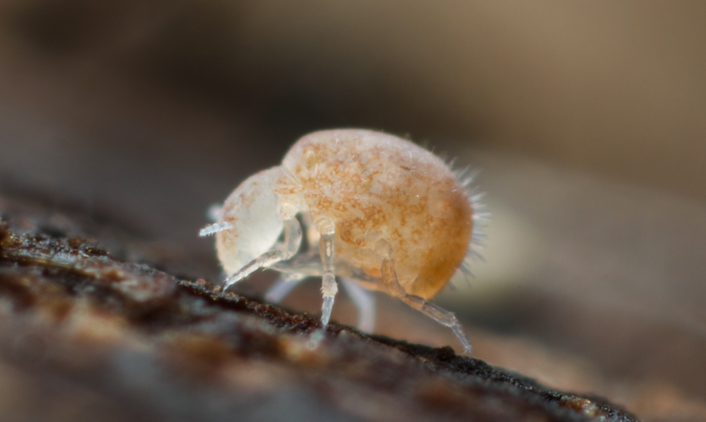 Original description on Flickr: N. murinus from Launceston, Tasmania, taken in 35 degree heat. I found the last bit of damp in Launceston, up by the gorge. Wallabies had come down from the hills, starving and were rambling about the place, heart-rendingly eating dry bunches of dead leaves on the ground. Poor little things.